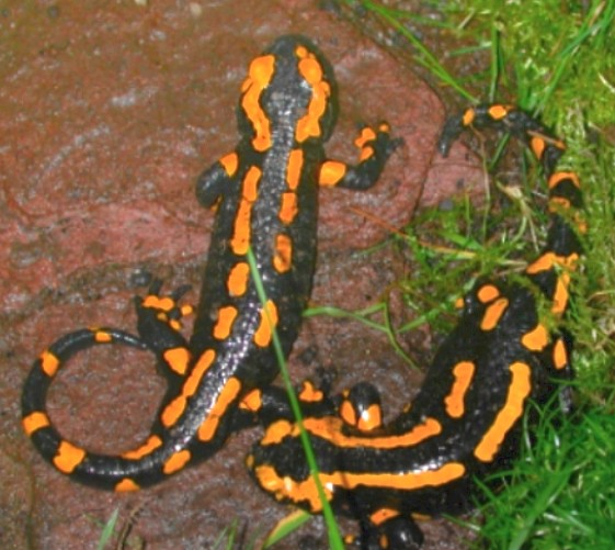 Fire salamander (Salamandra salamandra), orange-red morph